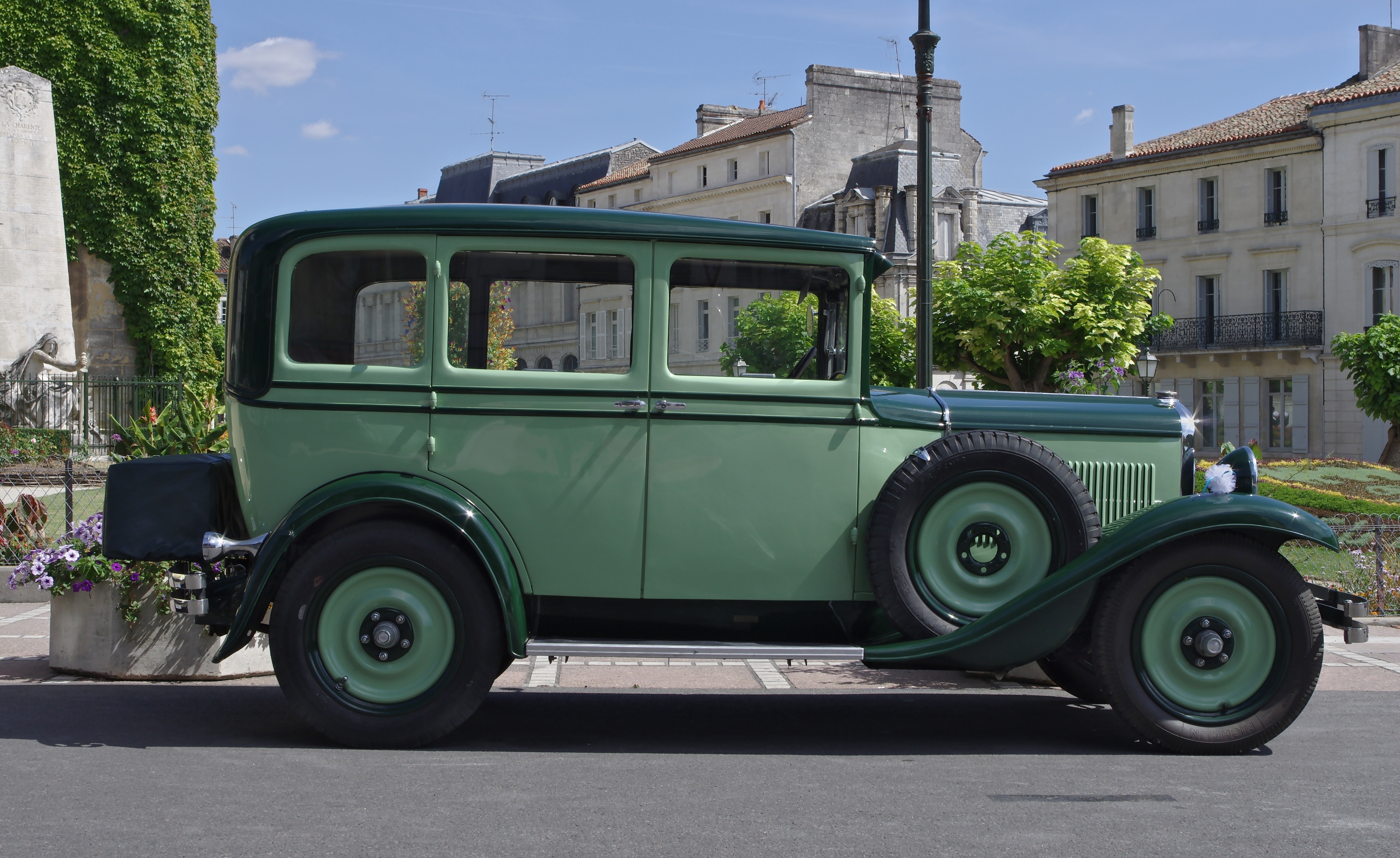 Fiat 514 L, built in Italy from 1929 to 1932 and in Spain from 1933 to 1935. Side view. Angoulême, France.